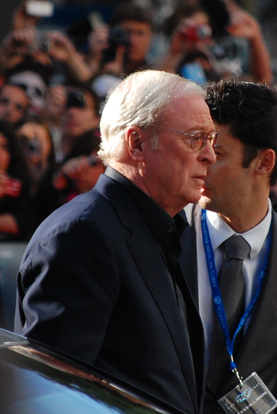 Michael Caine at the European premiere of The Dark Knight